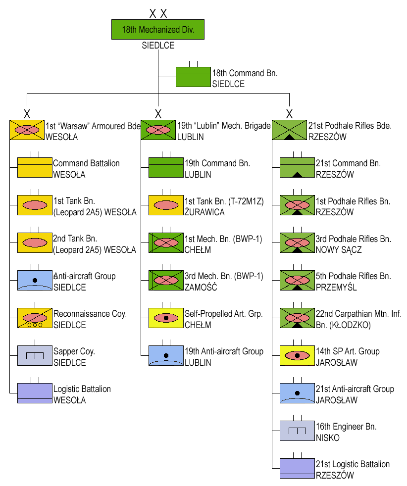 Structure of the Polish Army's 18th Mechanized Division after activation in September 2018